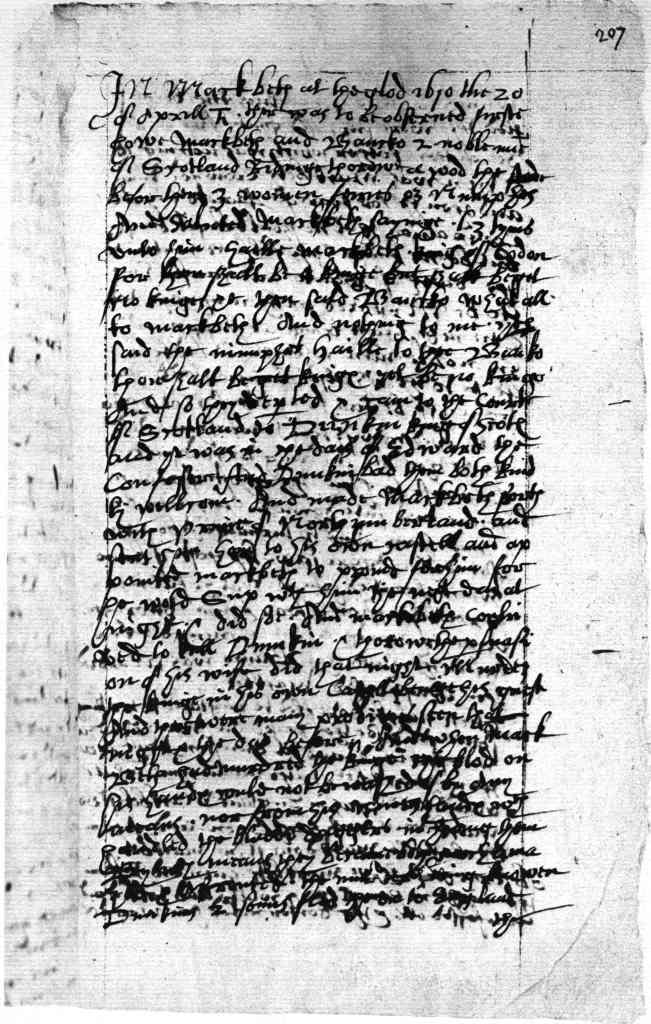 First page of the description of the play Macbeth that Simon Forman saw in 1610.